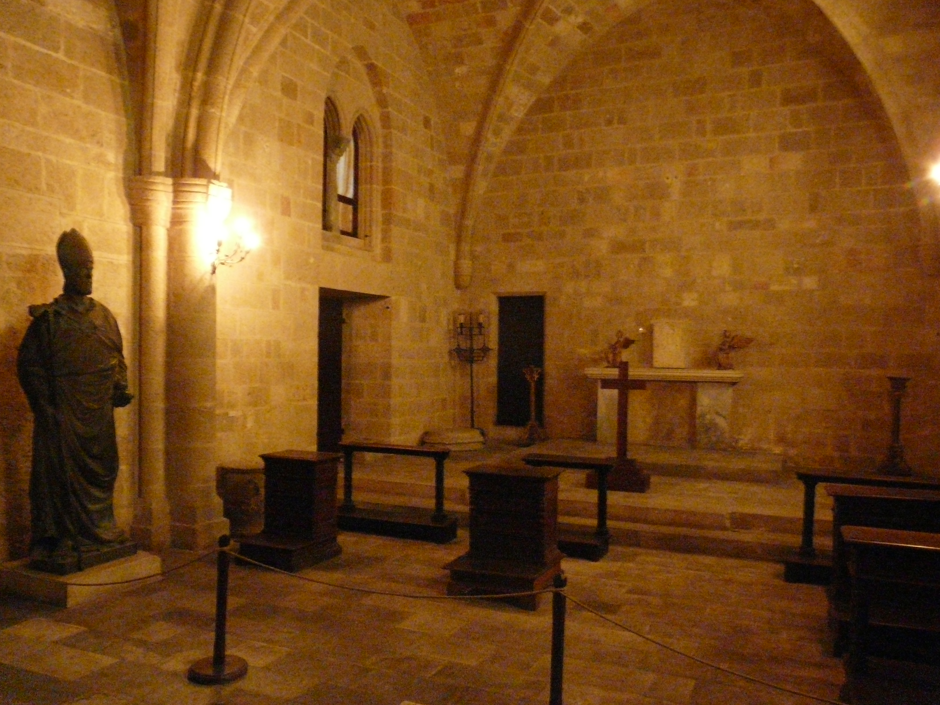 Palace of the Grand Master of the Knights of Rhodes